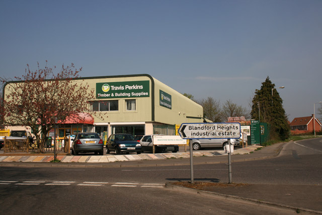 Industrial Estate Blandford Heights Industrial estate, has a wide range of small to medium industries providing local employment.